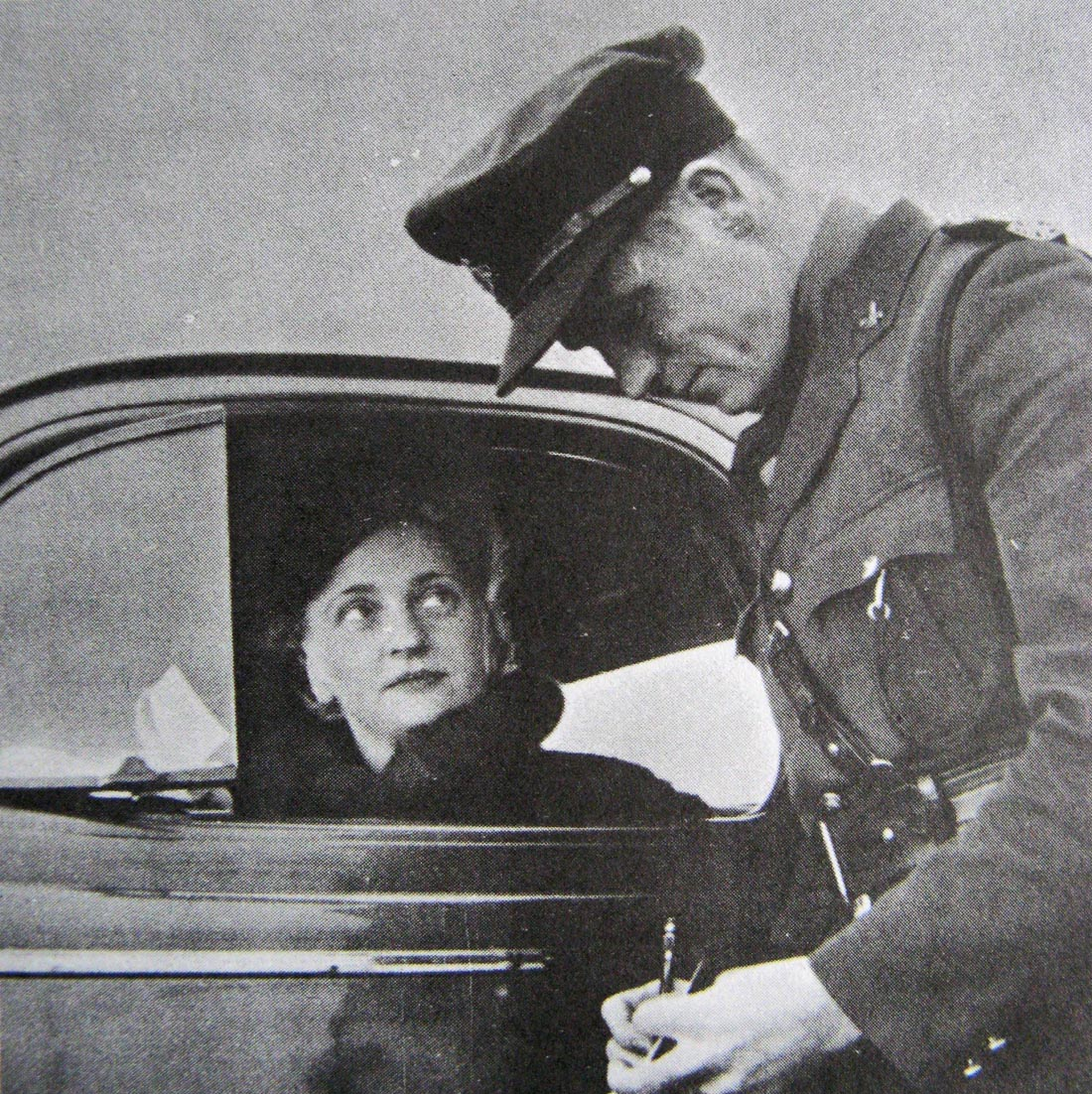 British Columbia Provincial Police officer, issuing a ticket to an enamoured motorist